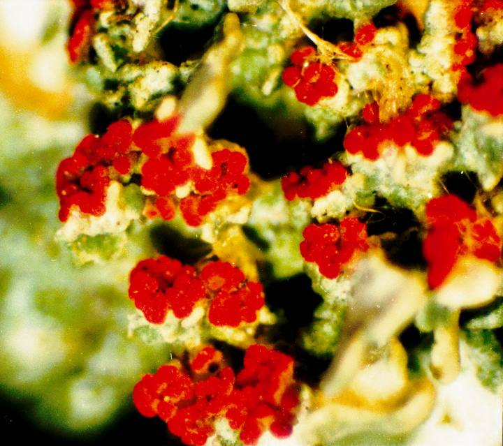 Cladonia cristatella Tuck. Morphotype Photograph of a herbarium specimen taken through a dissecting microscope (x40) showing a cluster of small scarlet apothecia on very short podetia. This morphotype specimen of Cladonia cristatella was growing on a rock along the eastern edge of the high voltage power line clearing N of the White Trail and S of Wards Chapel Road at the Soldiers Delight Natural Environment Area, Baltimore County, Maryland, USA (N 39o24.940' W 76o50.476') Collected by E.C. Uebel (No. U-449, 10 Jun 2003)